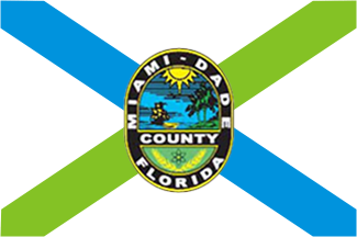 The official flag of Miami-Dade County, Florida, USA